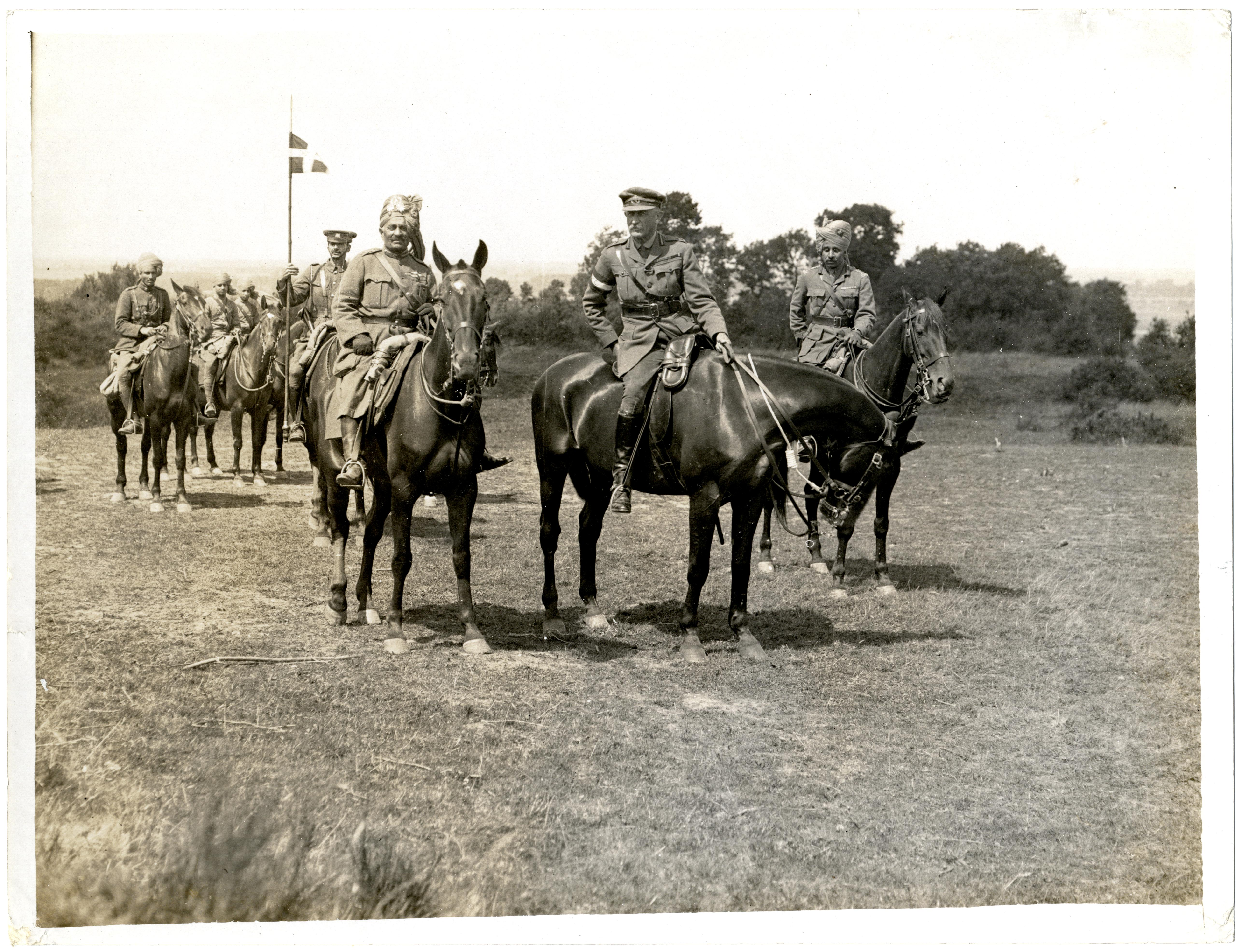 Reference: Photo 24/(153) From the Girdwood Collection held by the British Library. This image is part of the Europeana Collections 1914-1918 Date: 28 Jul 1915 See also: - View this at the British Library's site - Browse this collection on Europeana - and on Wikimedia Commons Please consider donating to the British Library.